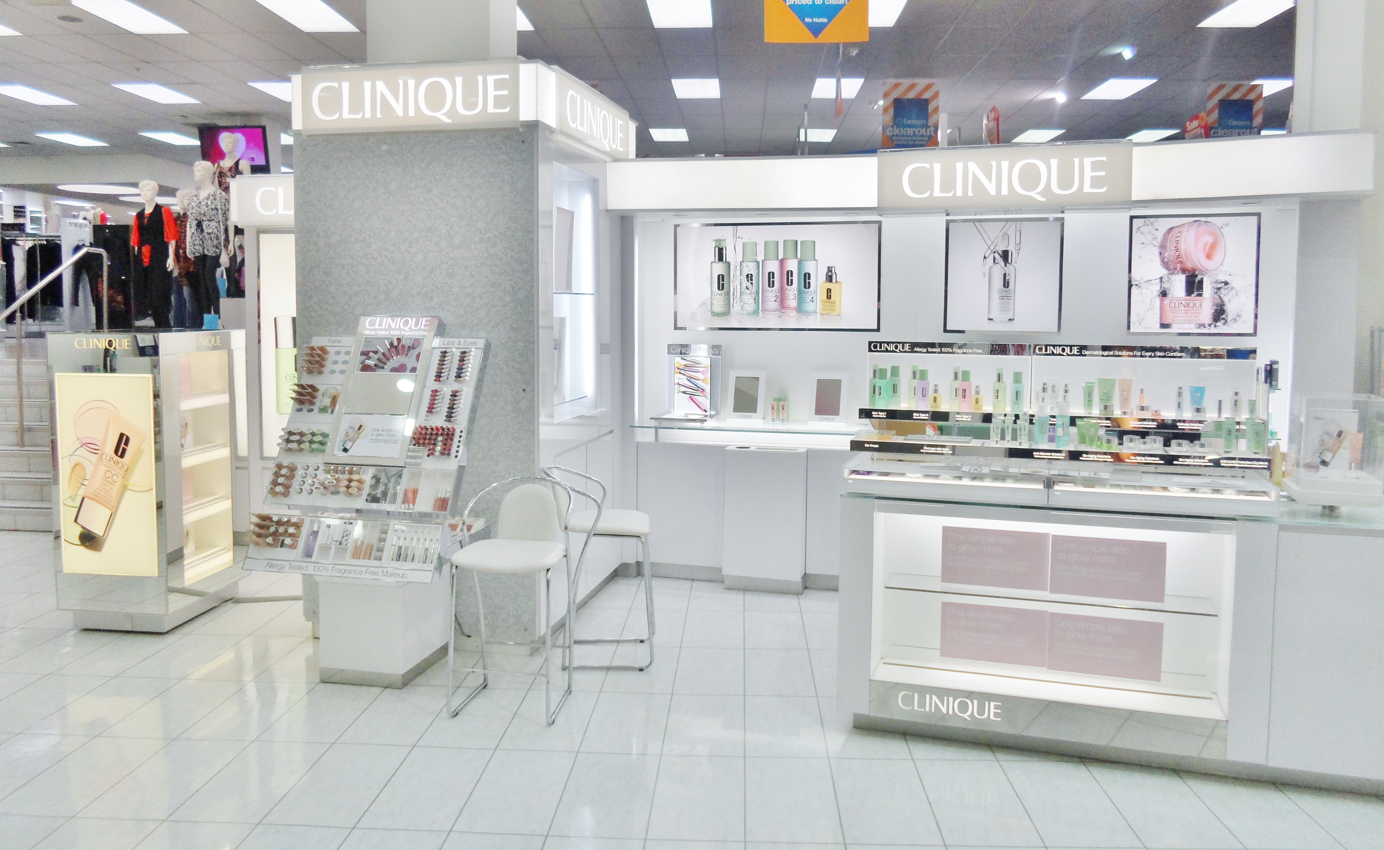 A small Clinique counter at New Zealand department store Farmers in Dunedin in 2013.